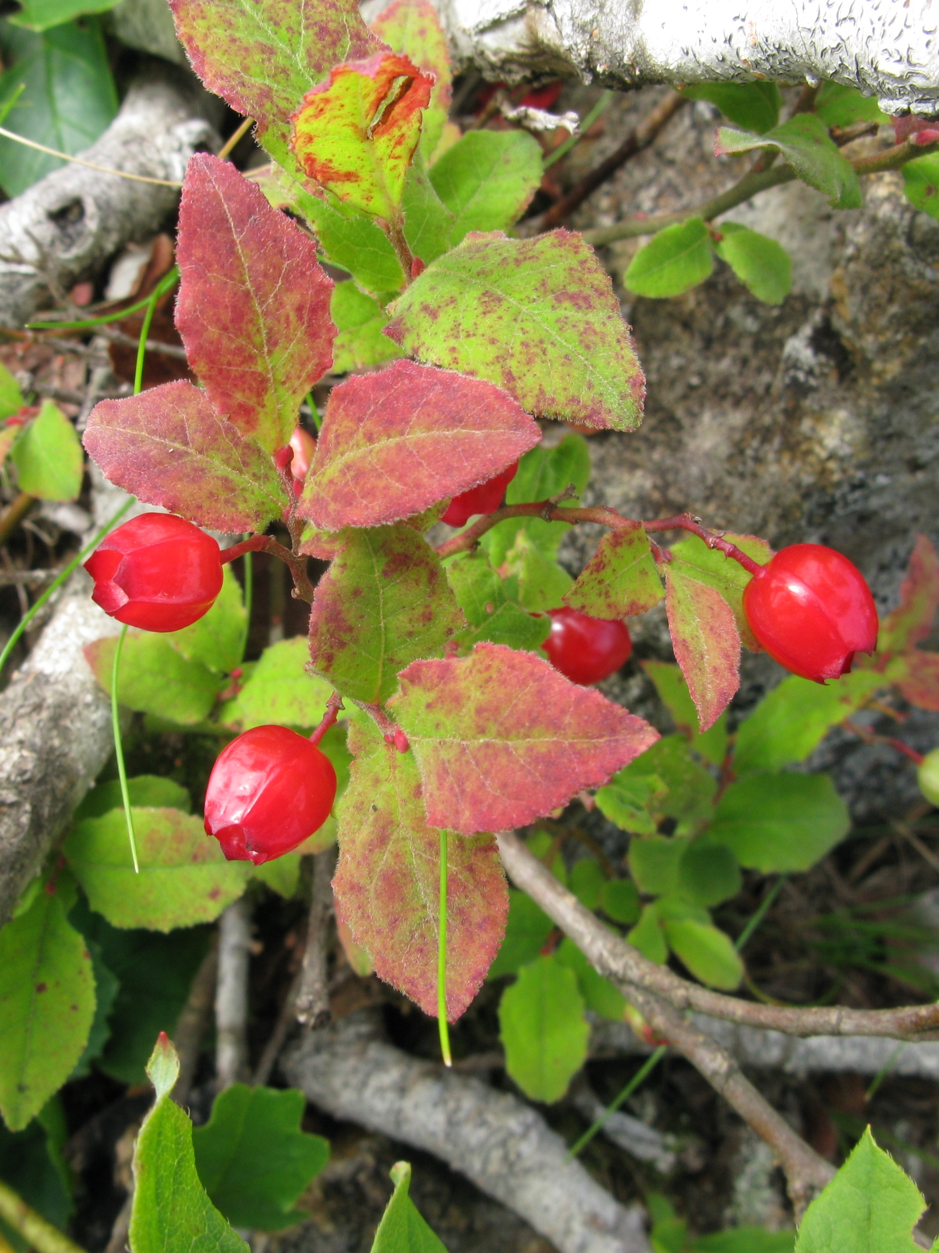 Vaccinium hirtum ,Aizu area, Fukushima pref., Japan